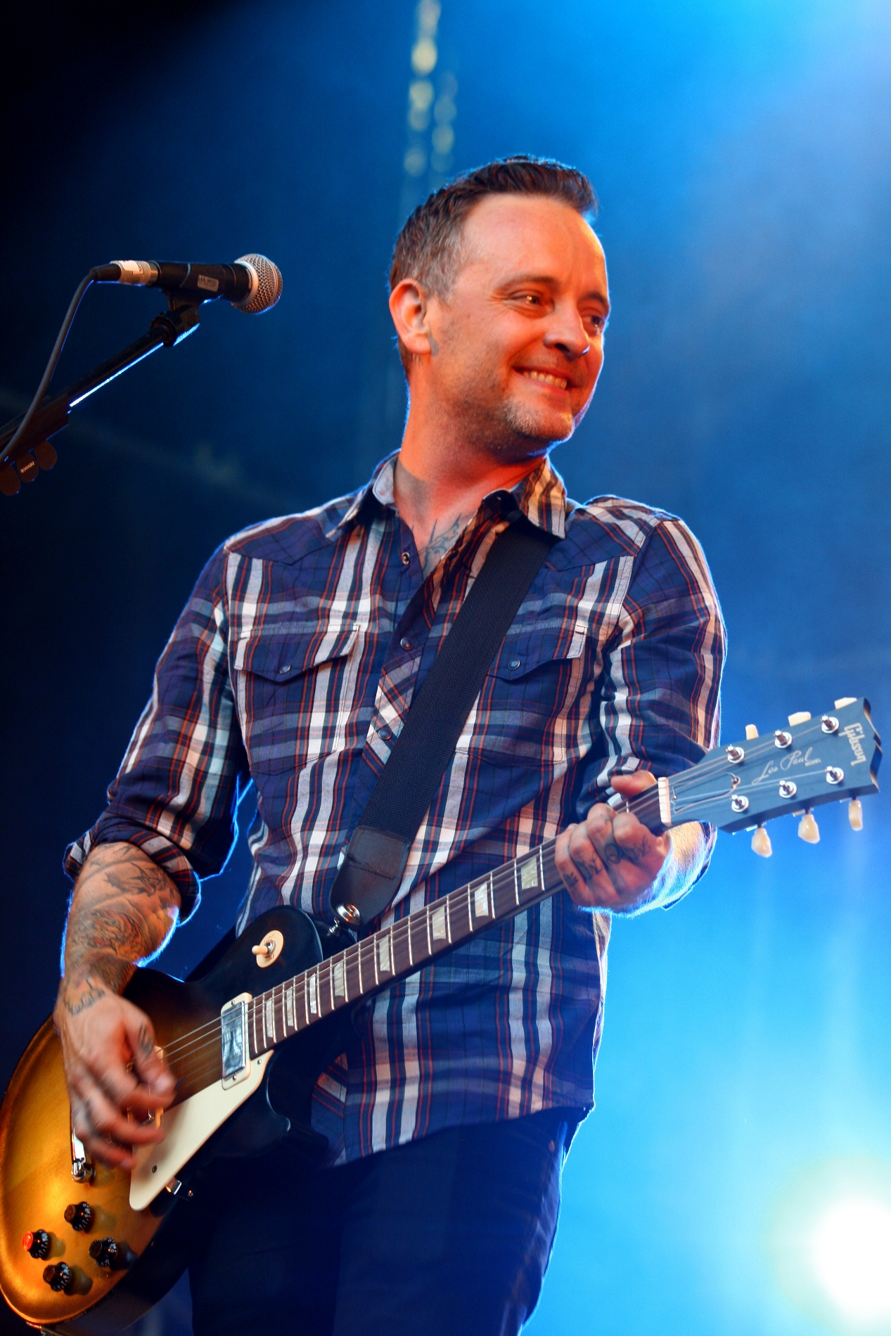 Dave Hause, Taubertal Festival 2014. Festivalsommer This photo was created with the support of donations to Wikimedia Deutschland in the context of the CPB project "Festival Summer".